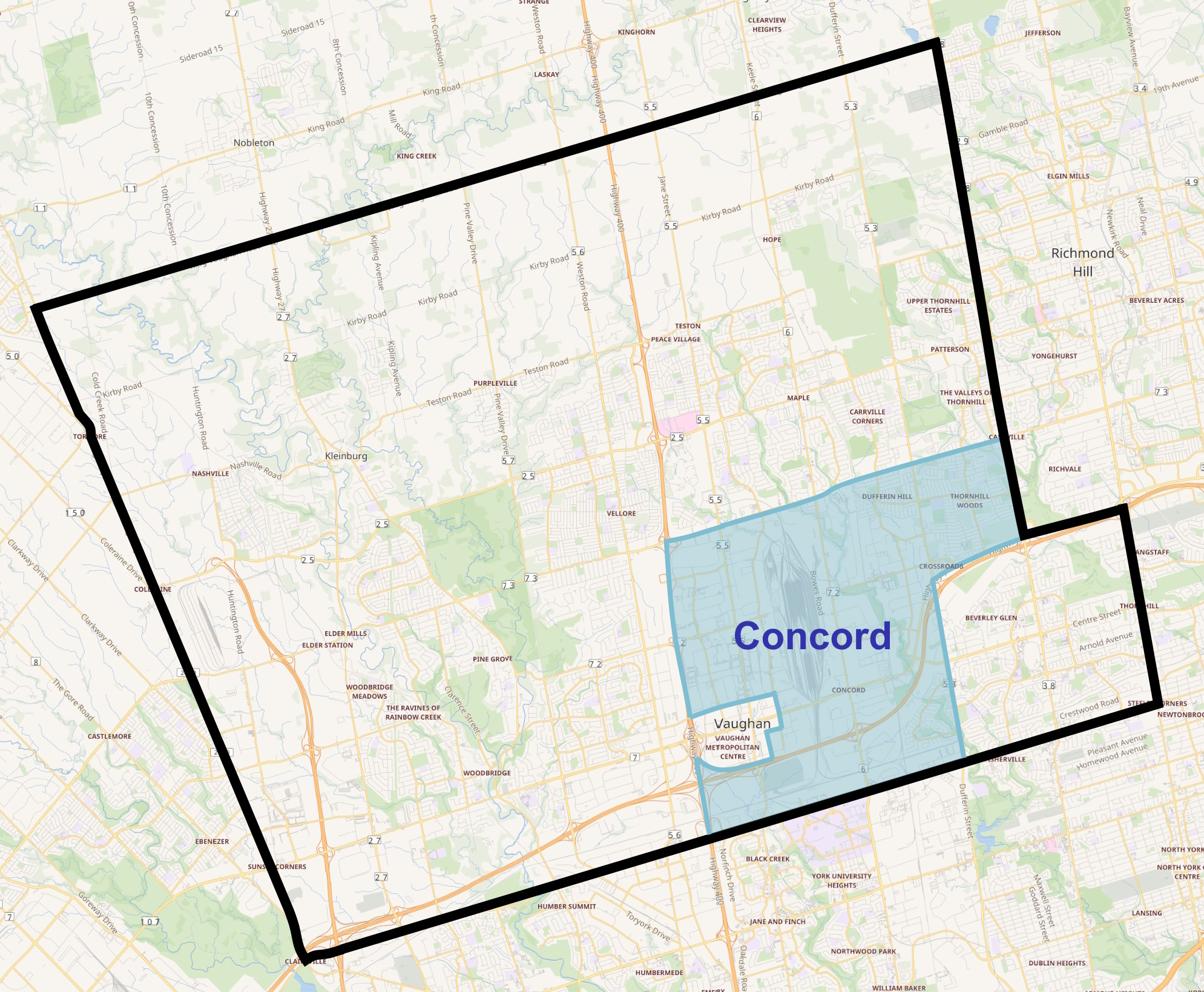 Location of Concord in Vaughan